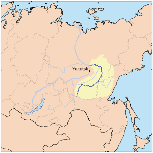 This is a map of the Aldan River Watershed, based on USGS data.